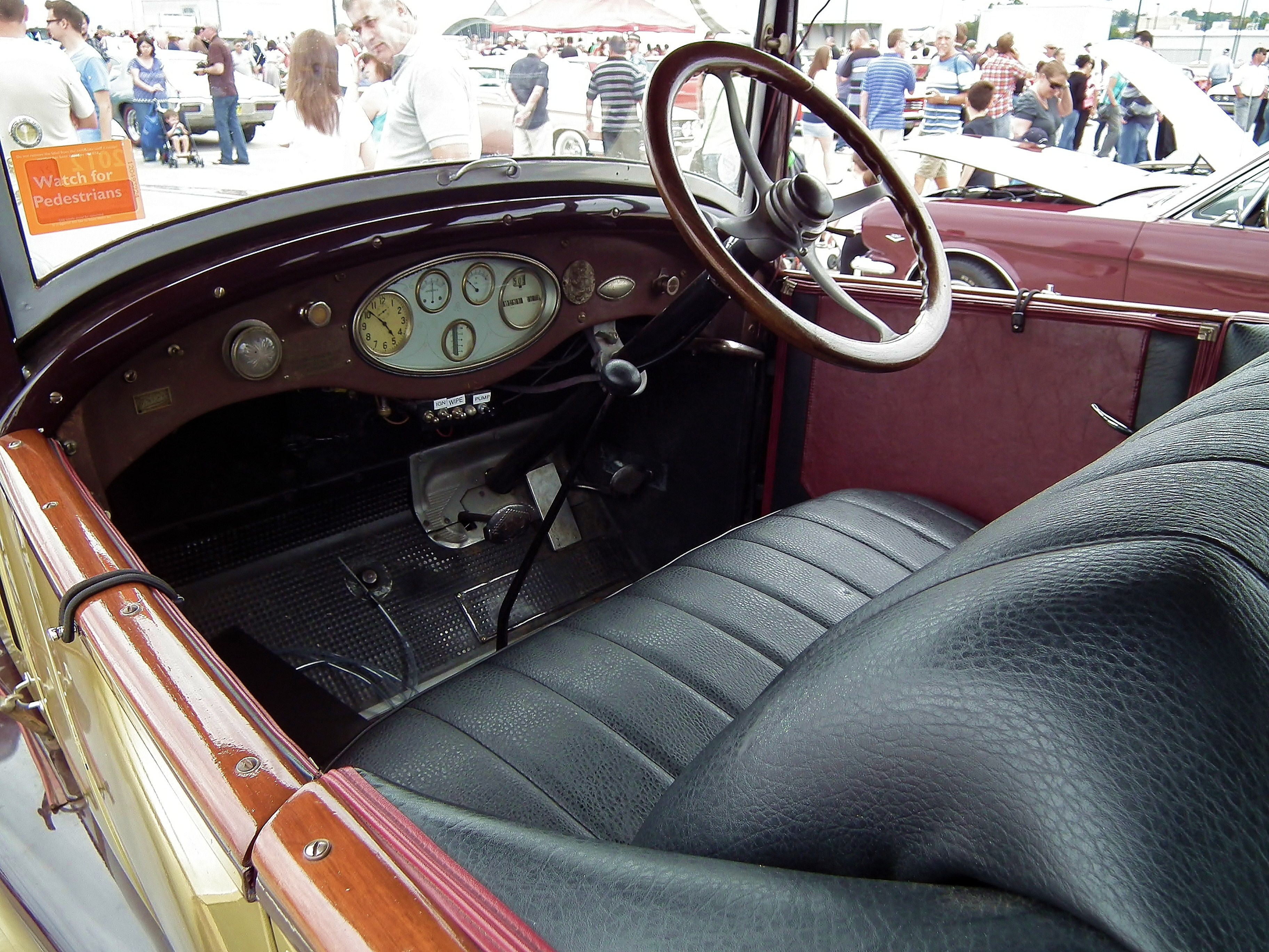 1925 Studebaker California sedan interior. Taken at the 2012 New South Wales All American Day, held at Castle Towers Shopping Centre, Castle Hill, Sydney.